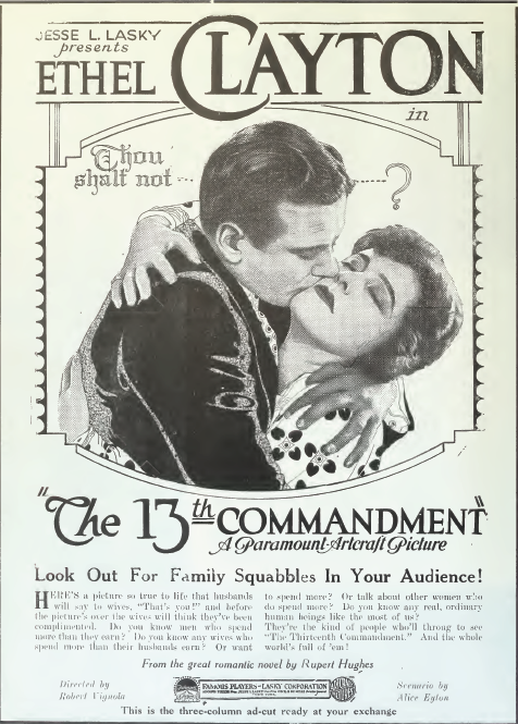 Ethel Clayton in the American drama film The Thirteenth Commandment (1920) (also known as The 13th Commandment), a film directed by Robert Vignola.